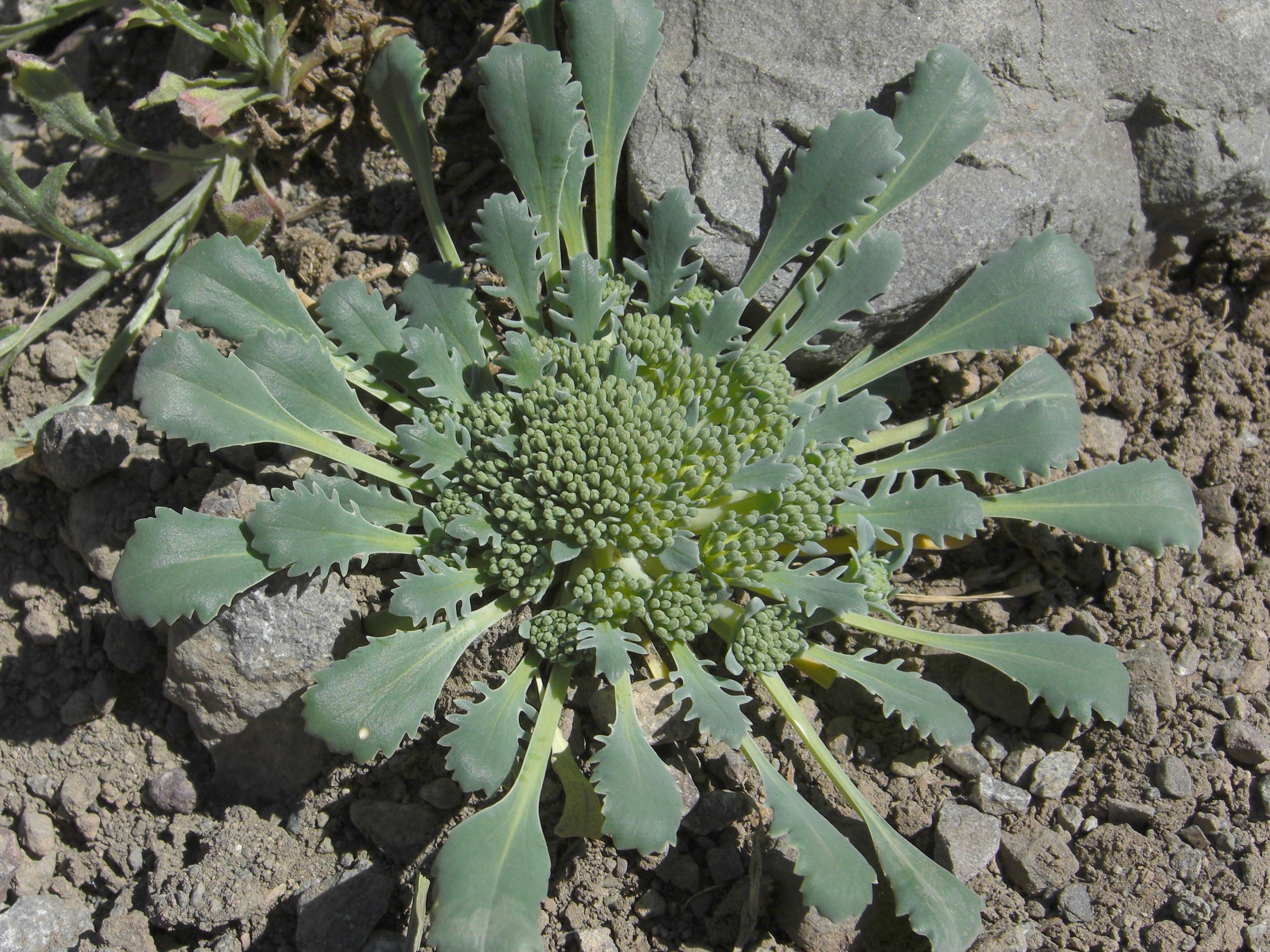 Nastanthus agglomeratus Miers? 20081121 mountains east of Santiago, Chile See the photo linked in Jubaea's comment.